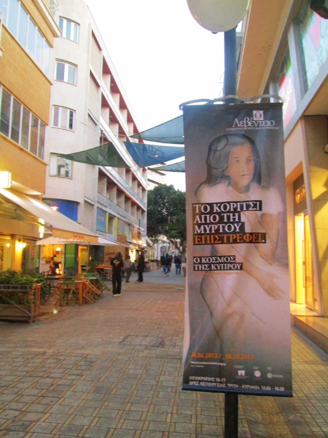 Cultural posters of Cypriot exhibition Ledra Street Nicosia Cyprus